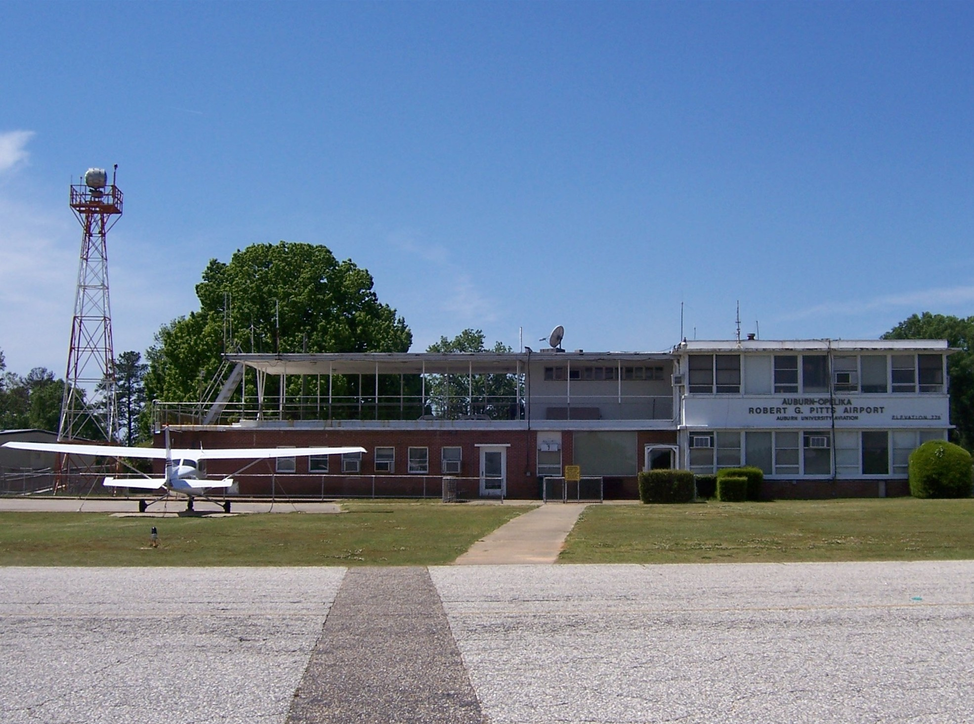 FBO on the field of the Auburn-Opelika Robert G. Pitts Airport in Auburn, Alabama.